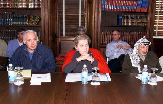 Secretary of State Madeleine Albright (C), Israeli Prime Minister Benjamin Netanyahu (L) and Palestinian leader Yasser Arafat (R) in Houghton House at the Wye River Conference Center, during the Wye River Memorandum talks